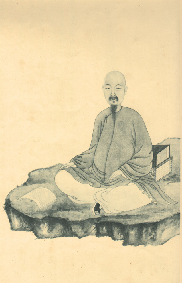 ZHAO Xihuang, scholar of the Qing Dynasty.